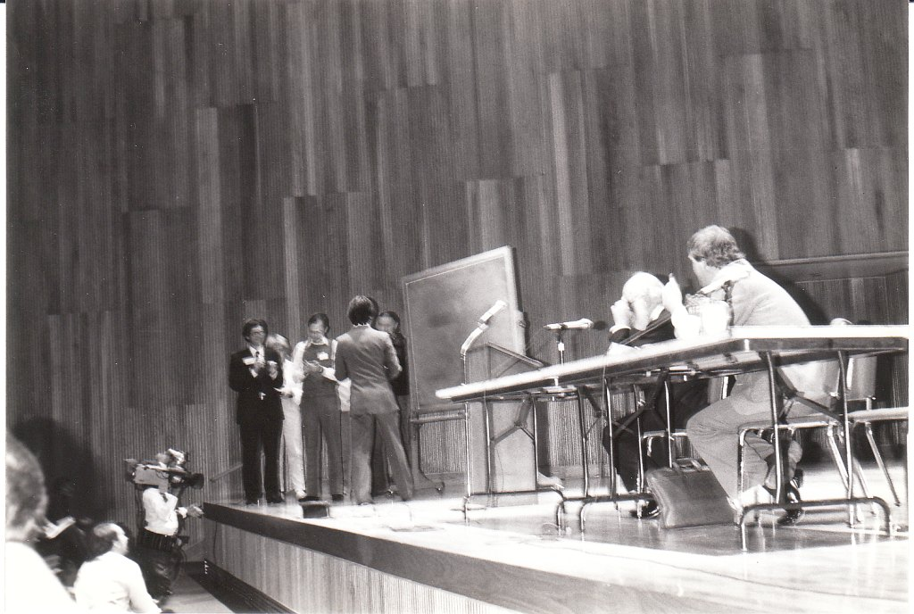 'Lightning Fast Calculator' Arthur Benjamin performs at the 1983 CSICOP Conference in Buffalo, NY